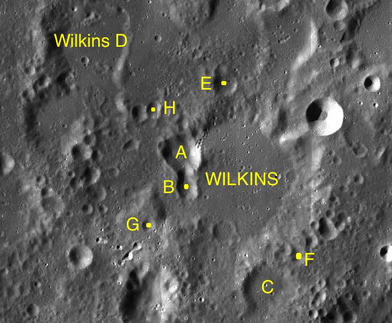 Part of the chart LAC-96 used for the presentation.